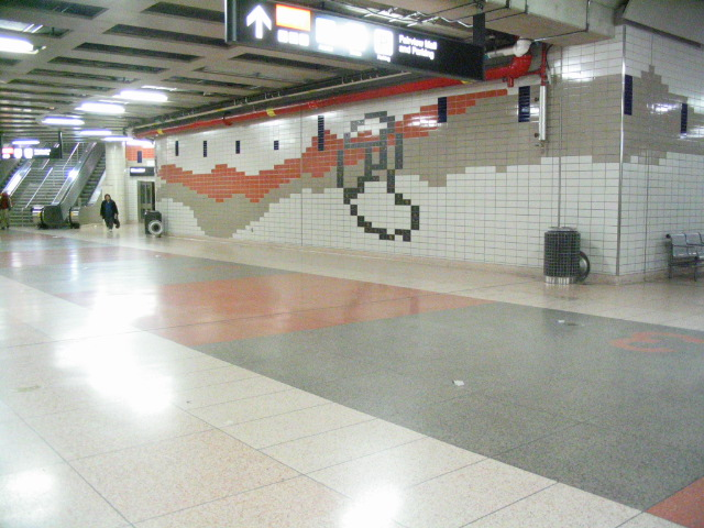 A view on the concourse level of Don Mills station. The public art on the wall (but not that on the ground) can be seen in the picture.